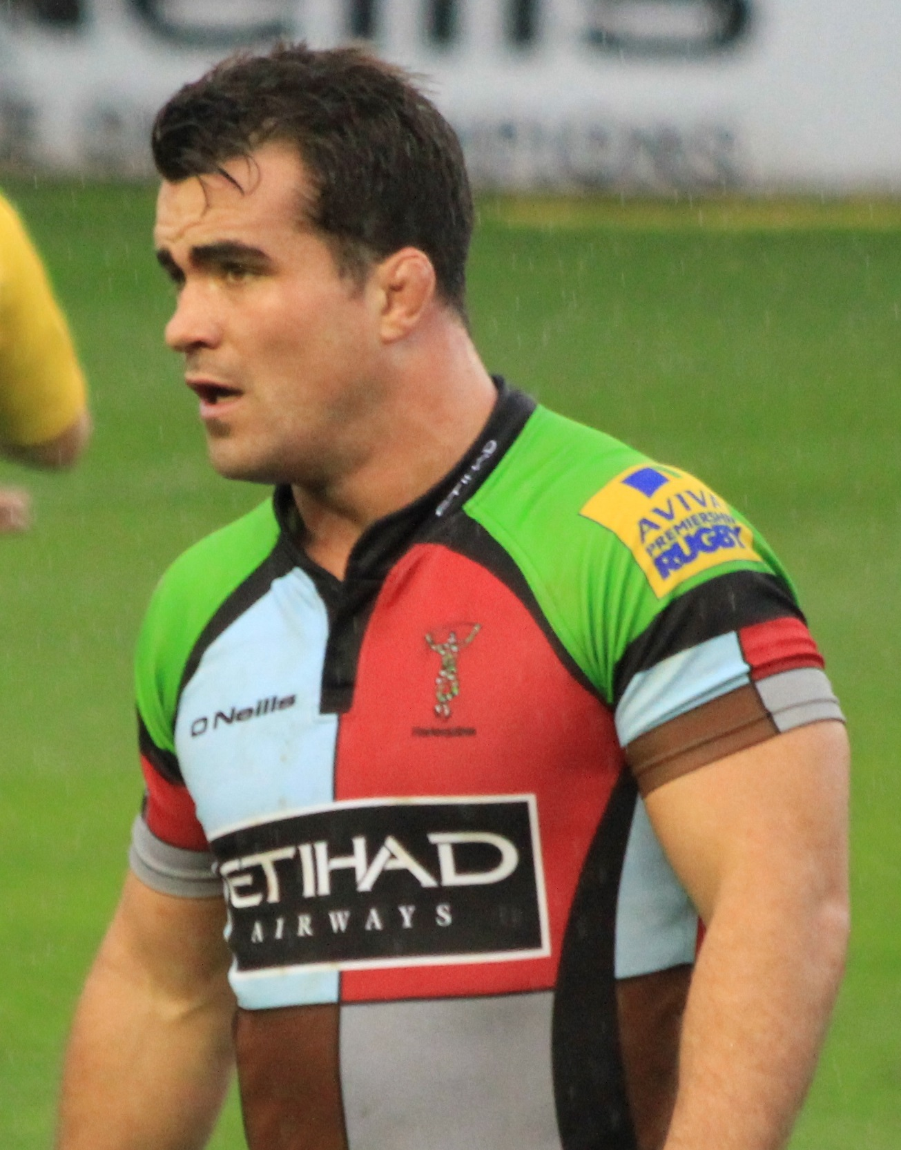 Dave Ward playing for Harlequins in 2013